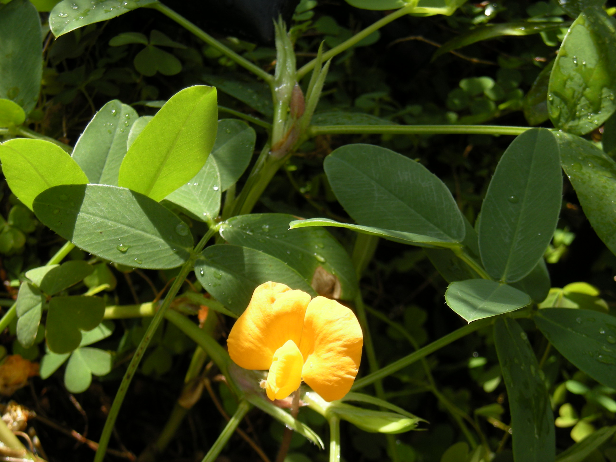 Arachis pintoi foliage and flower